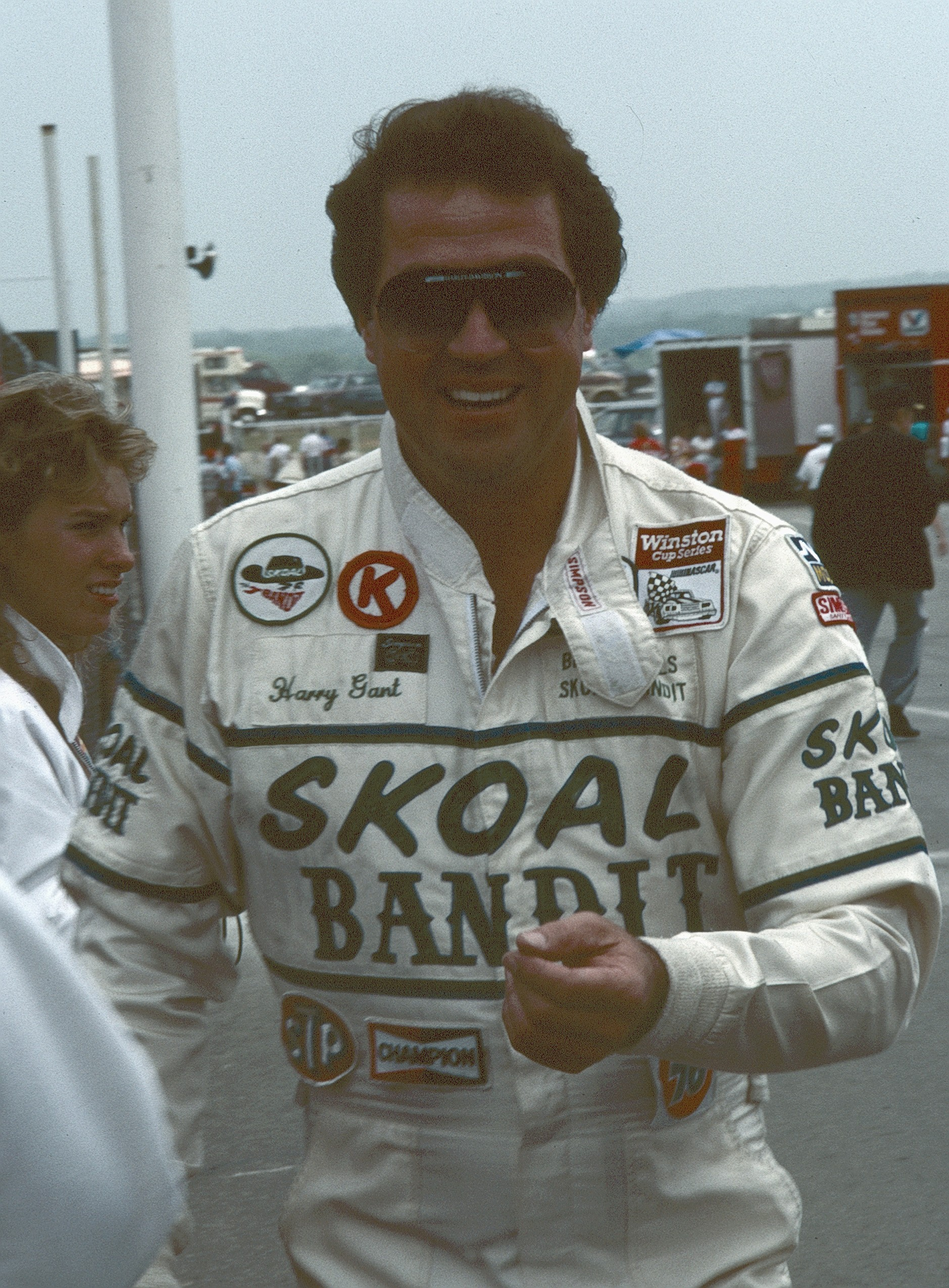 NASCAR driver Harry Gant from the 1980s or 1990s, taken by Ted Van Pelt.